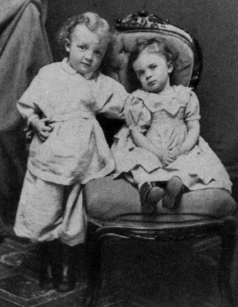 4-years-old Vladimir Ulyanov and his sister Olga. Simbirsk